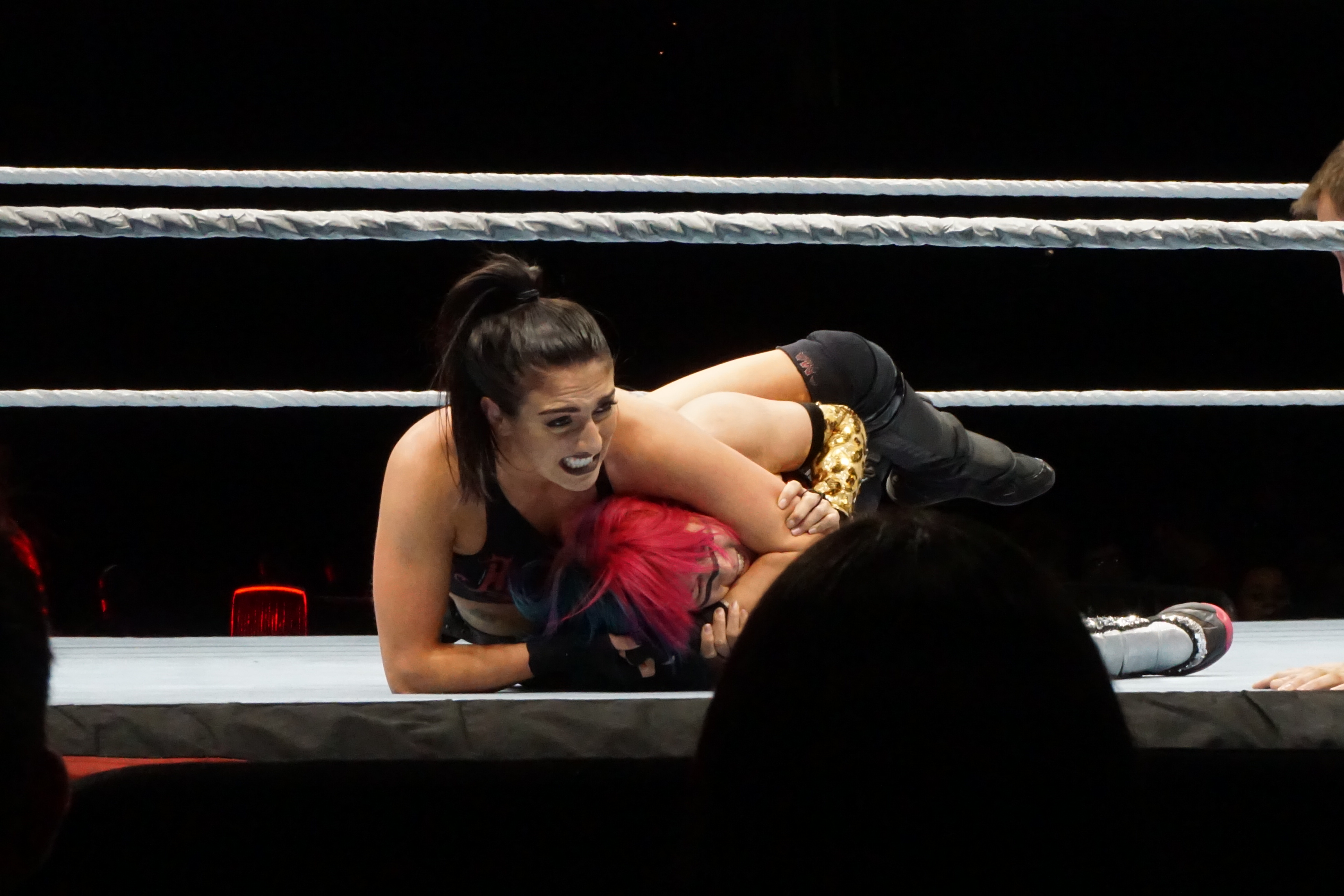 Deville and Asuka at the WWE live show in Buffalo, NY.